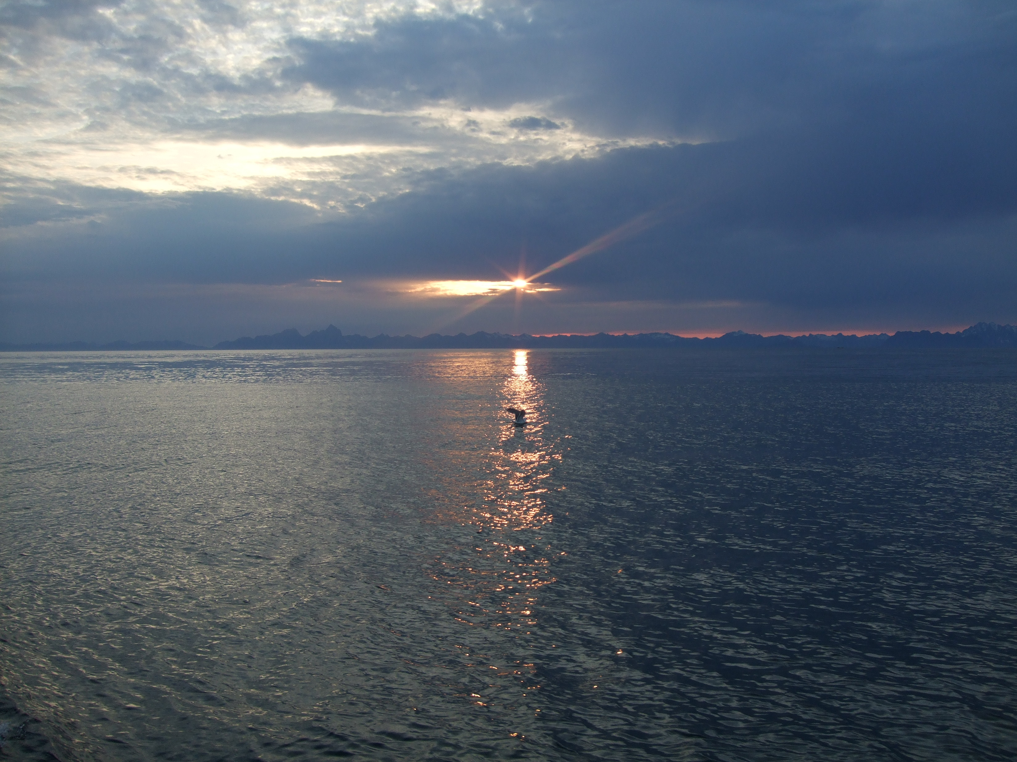 The Vestfjord with the mountains of Lofoten